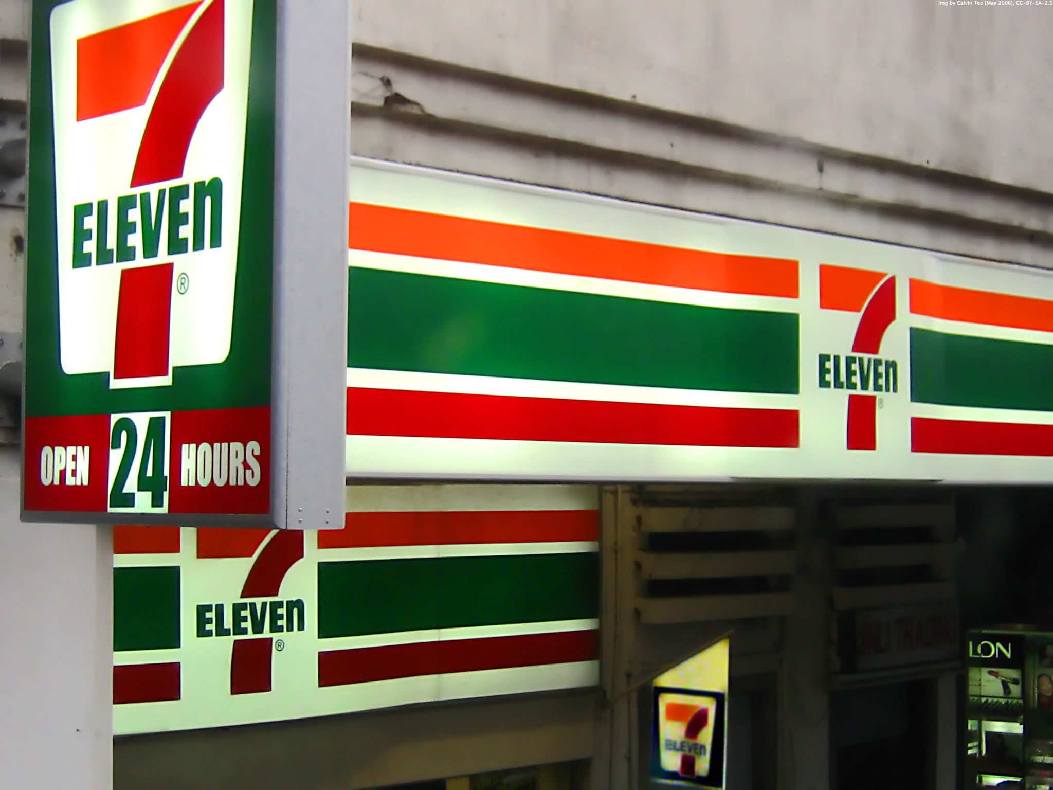 7-Eleven Shopfront, enticing shoppers in Republic of Singapore Img by Calvin Teo, May 2006